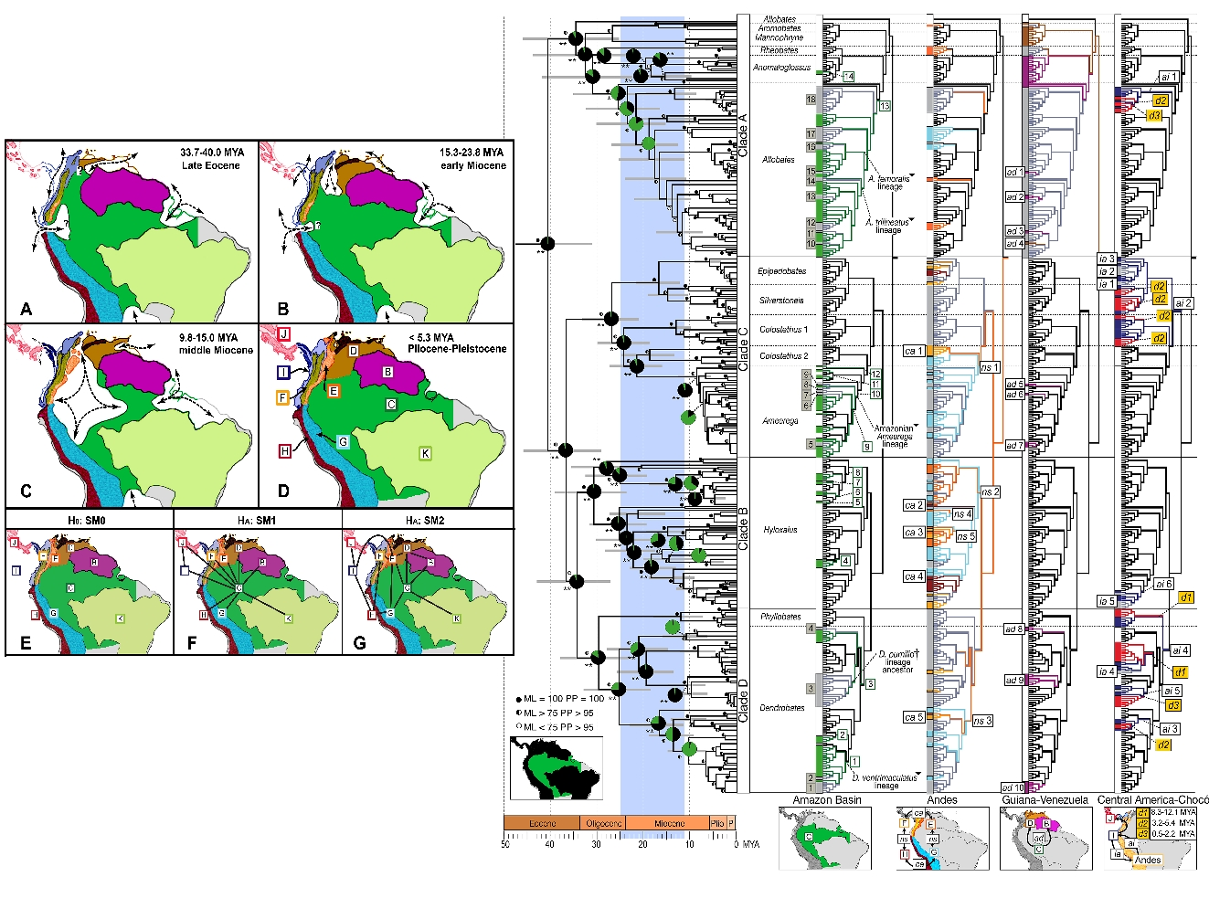 A phylogeographic image of poison frogs lineages from South America. Maps on the left show the main biogeographic regions as they change through time and the image to the right shows the frog lineages in context of their biogeographic origins.